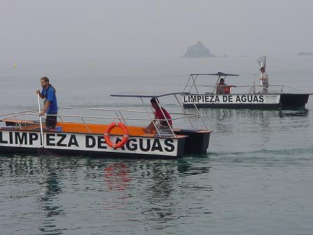 Cleanup organised by Biomarine